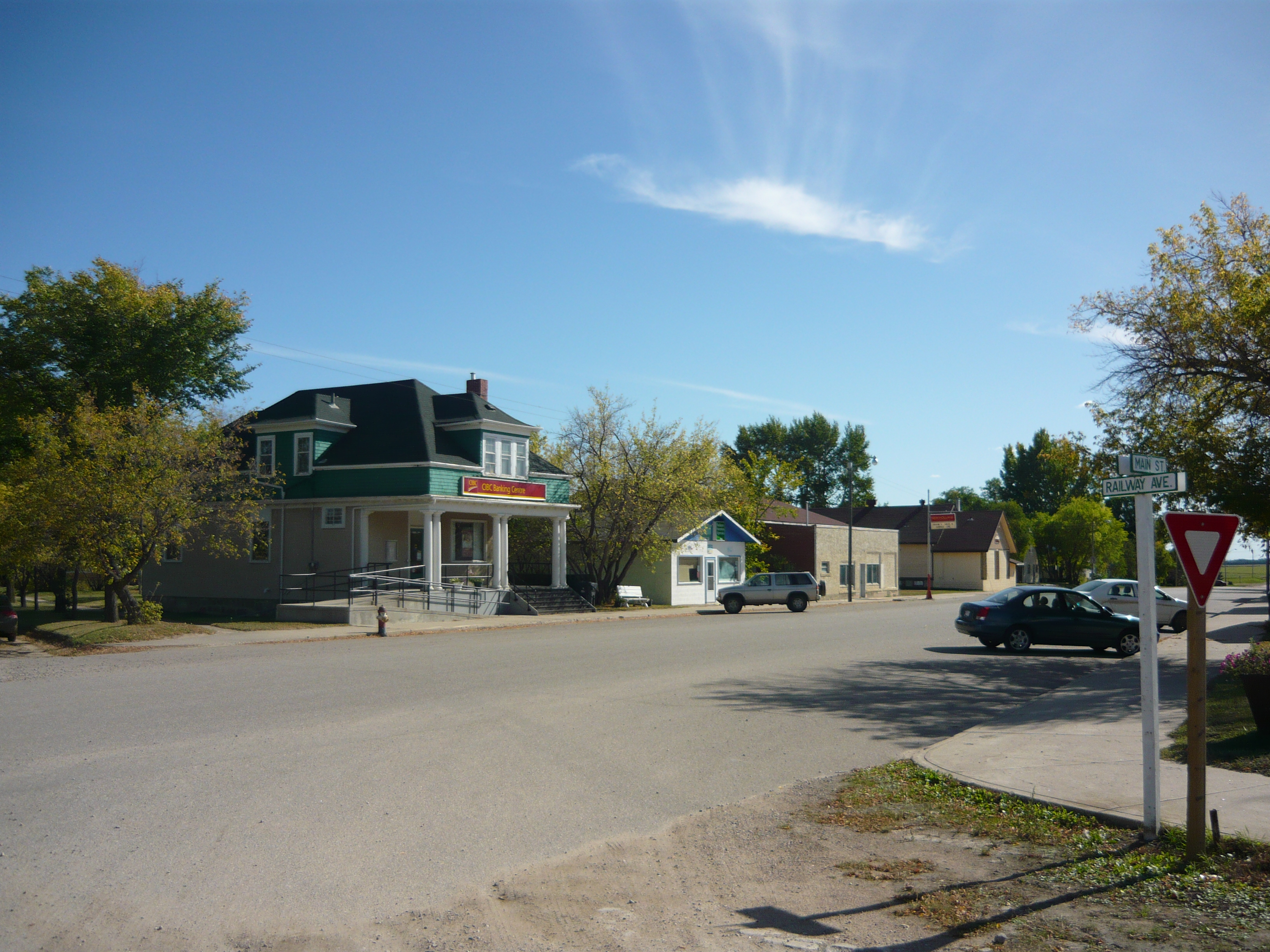 Business district of Radisson, Saskatchewan, Canada. Photo taken from Railway Avenue of its intersection with Main Street. The buildings shown are on Main Street, with the CIBC bank at far left.